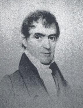 Portrait of Walter Simonds Franklin, 1799-1838. Other information Portrait is with the Historical Society of York County (Pennsylvania).